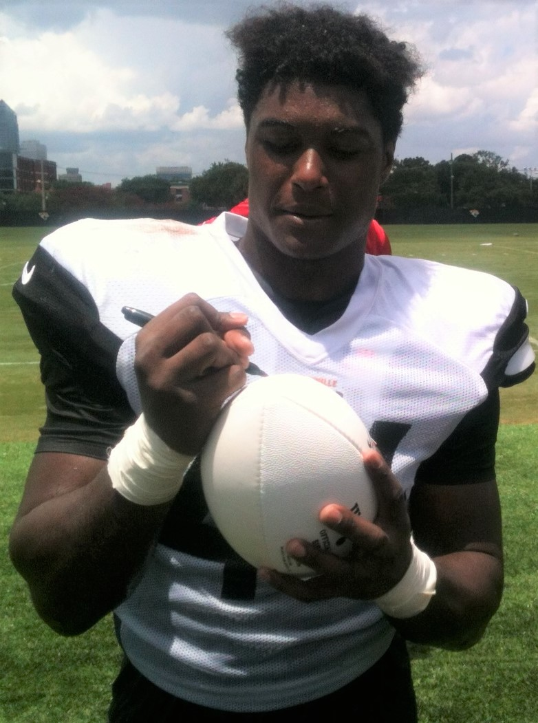 Jacksonville Jaguars linebacker Myles Jack signing an autograph for a fan in 2016 at Jaguars training camp, July 2016.